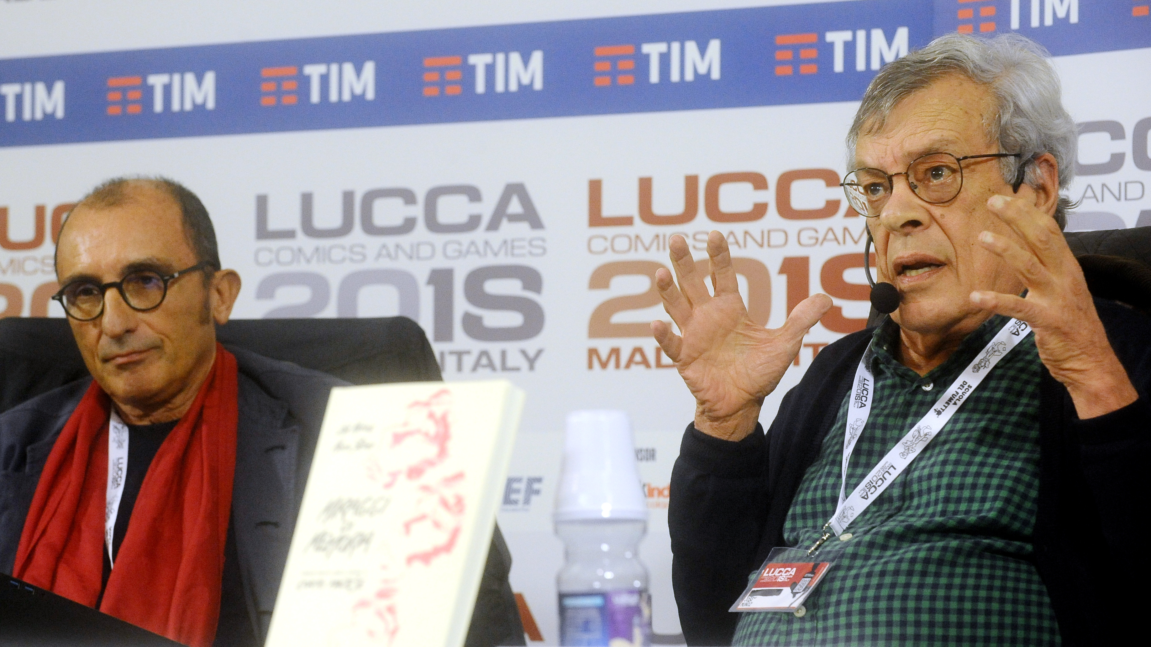 Marco Steiner e José Muñoz a Lucca Comics & Games 2018. Sala Tobino di Palazzo Ducale.